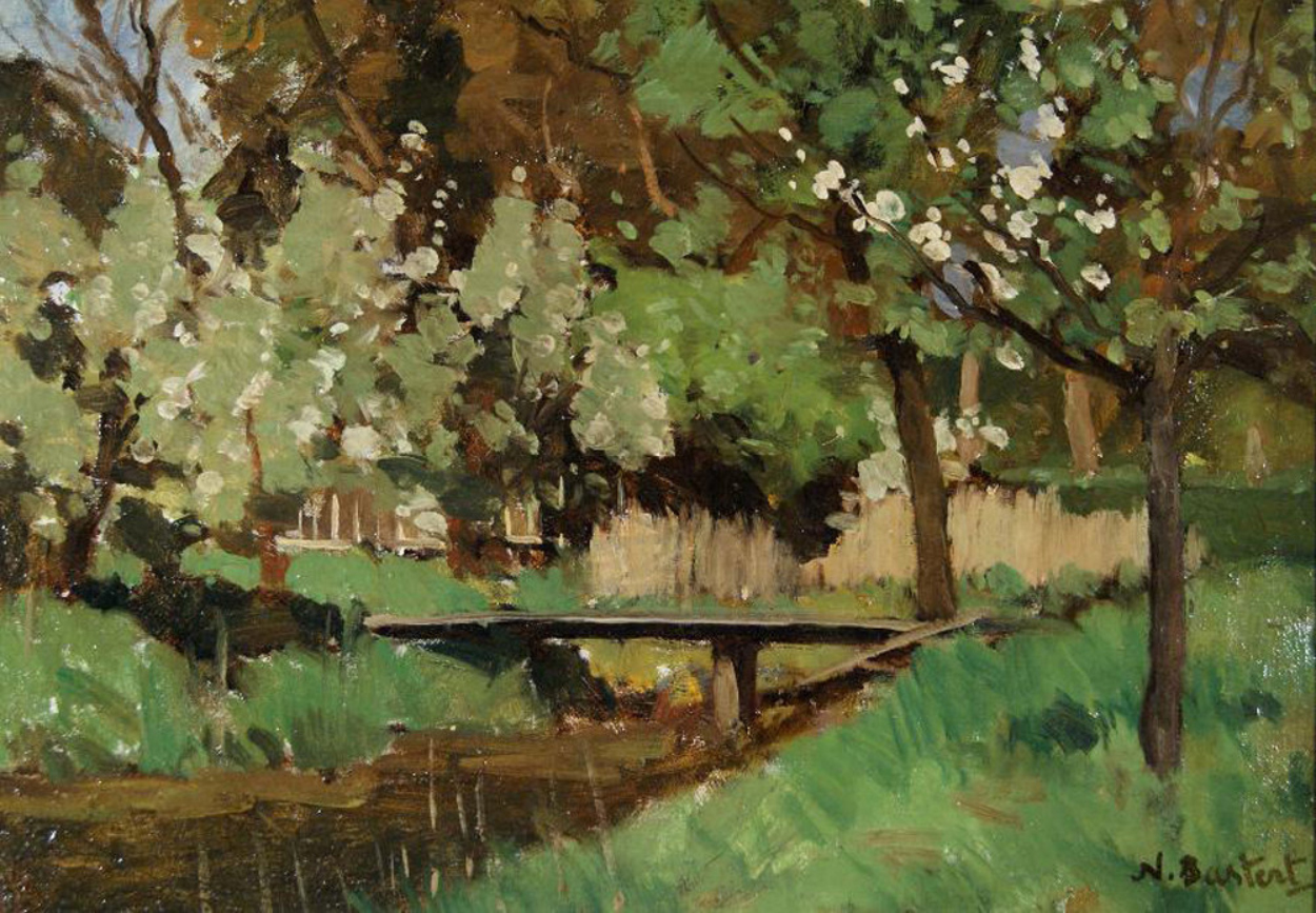 Behind the Painter's Studio